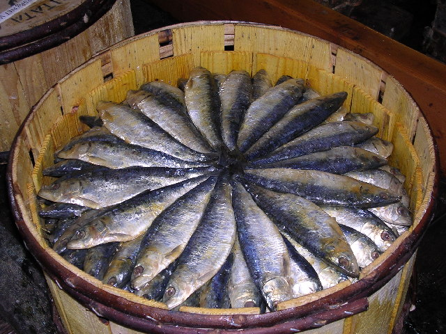 Pilchards - "Cornish Sardines" Salt pilchards packed in crates and transported all the way to Italy (the boxes are prestamped in Italian) where they are a delicacy. The Pilchard works, Newlyn. This industry has just closed as reported in the Independent October 29th.